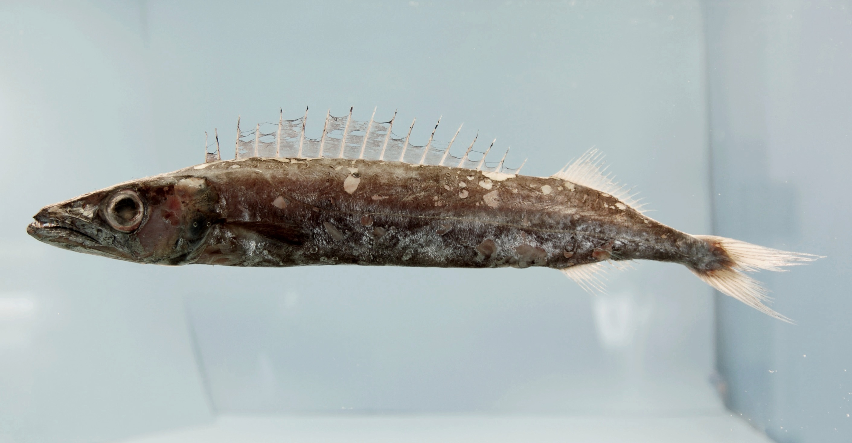 Roudi escolar or purple snake mackerel (Promethichthys prometheus). Gulf of Mexico.